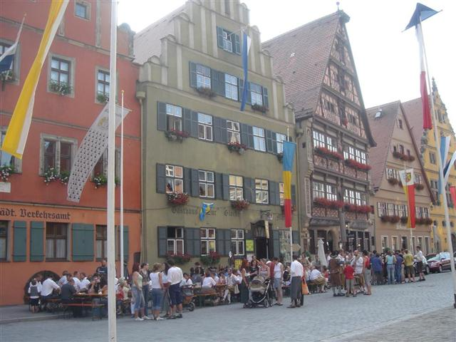 A traditional town street in Dinkelsbuhl. All of the roads in the city have such a similar quaint view and architecture. (personal picture)